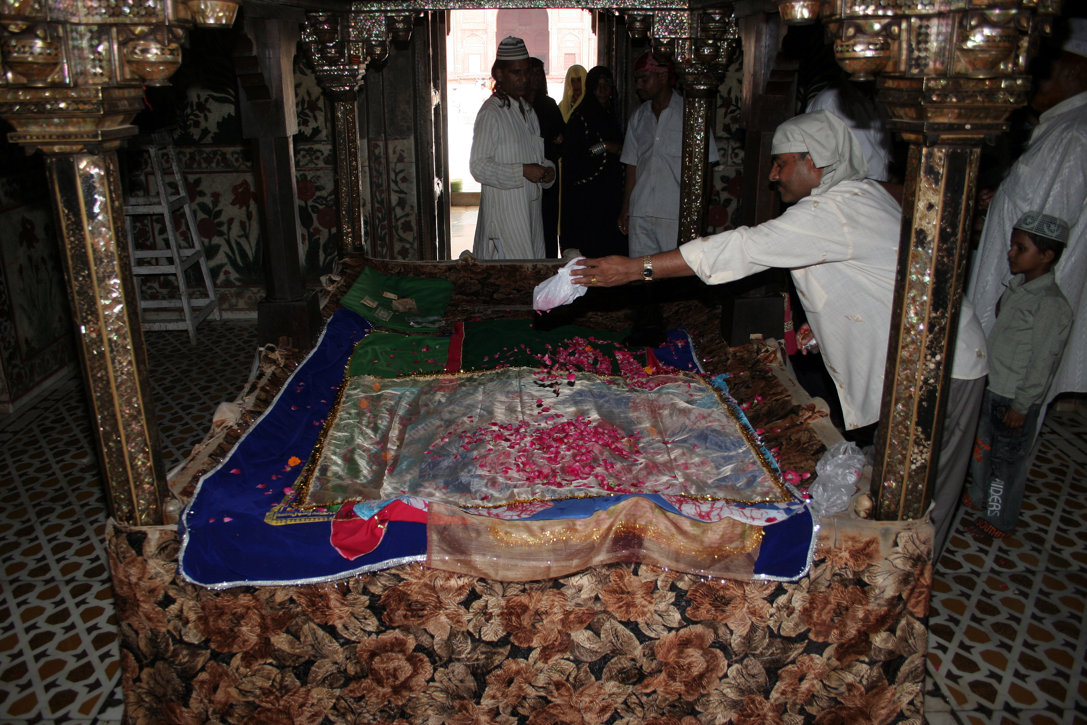 Salim Christi Tomb in Fatehpur Sikri